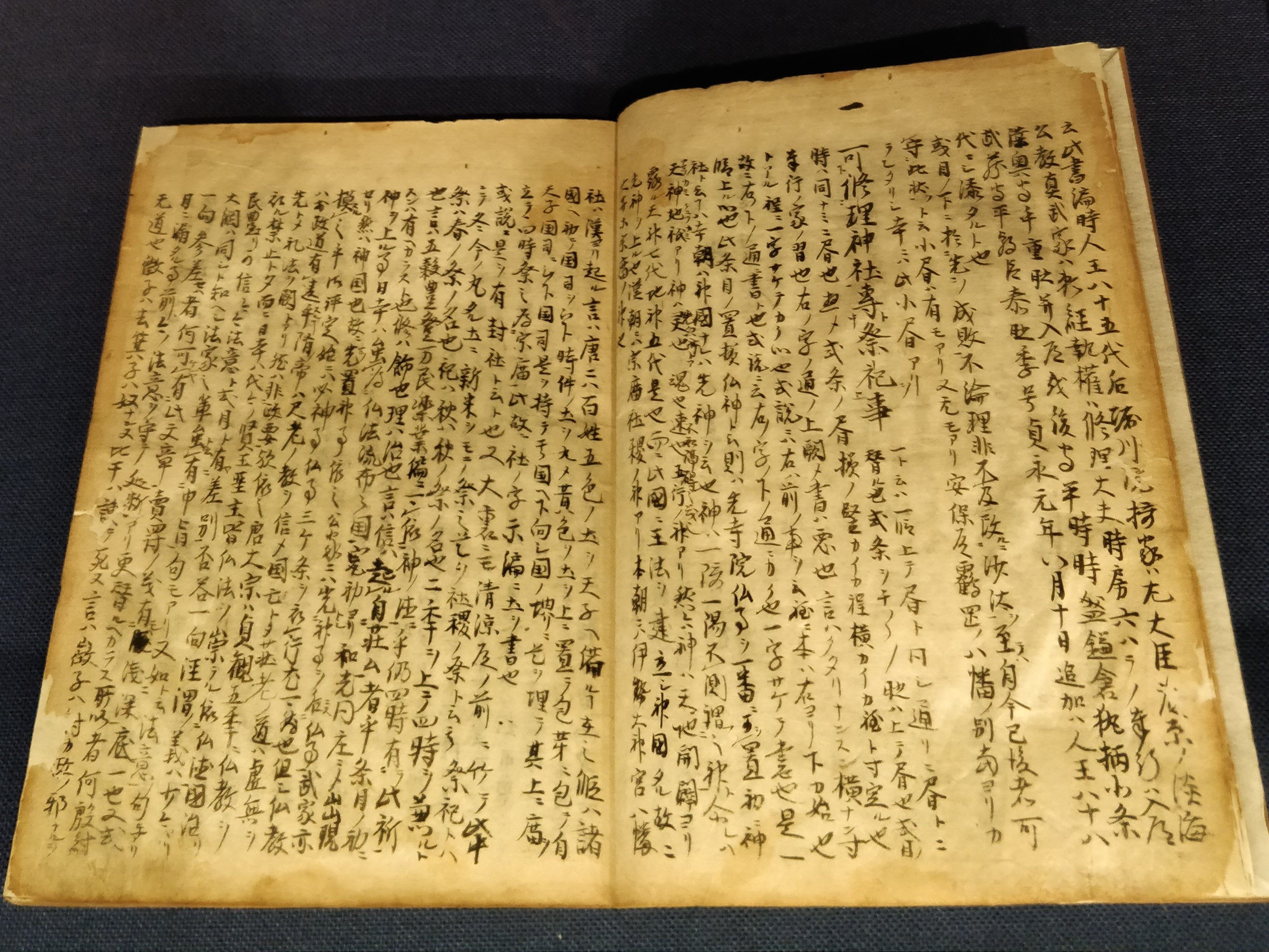 Goseibai Shikimoku (transcribed in the 17th century), in the Toyo Bunko, Tokyo.